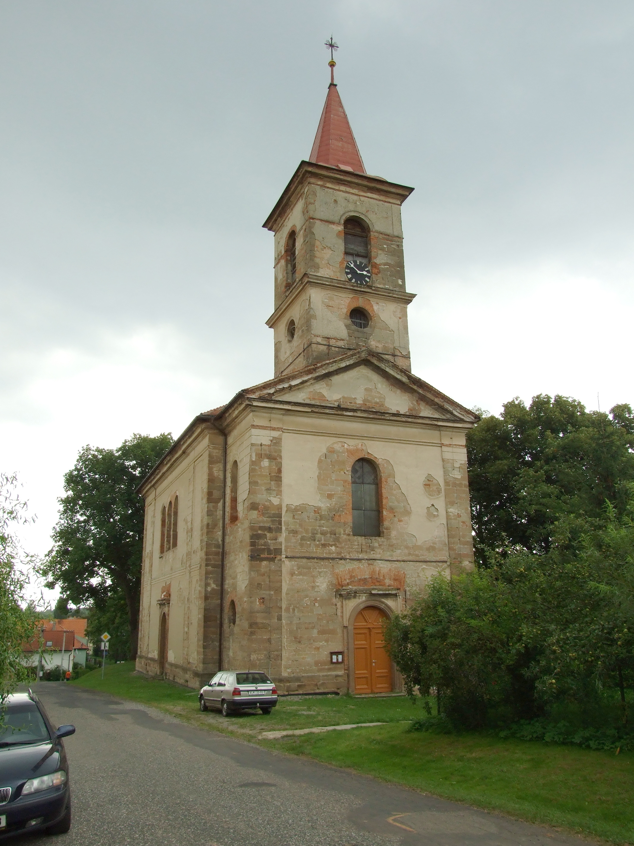 Main church in the town of Pozdeň, Central Bohemian Region, CZ